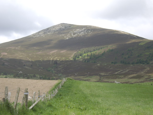 View to Ben Rinnes From road near Kirkhill.